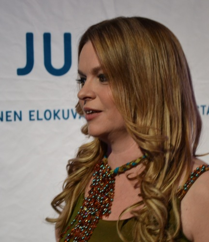 Elina Knihtilä in 2010 Jussi Award.